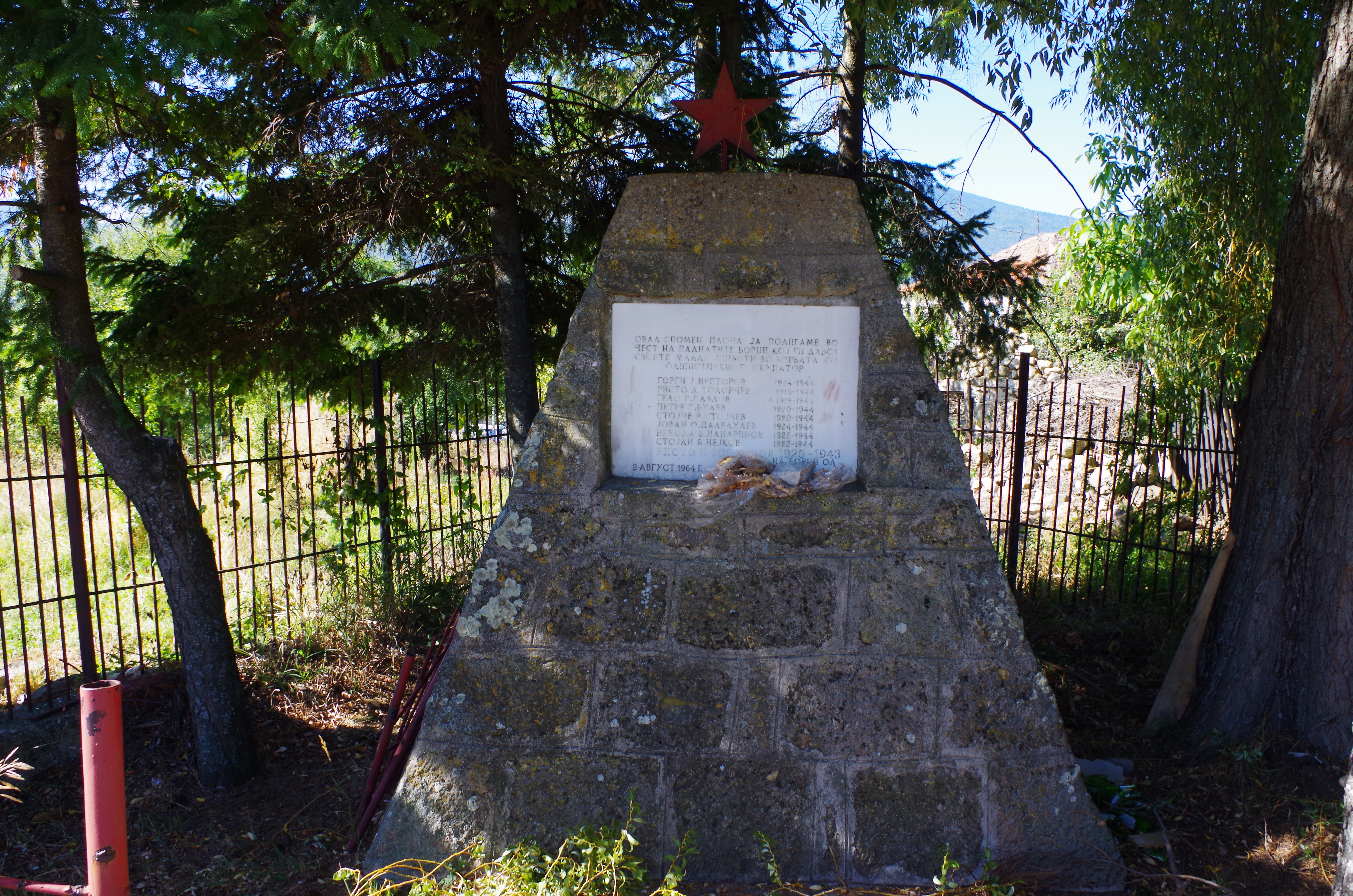 World War II monument in the village of Rožden